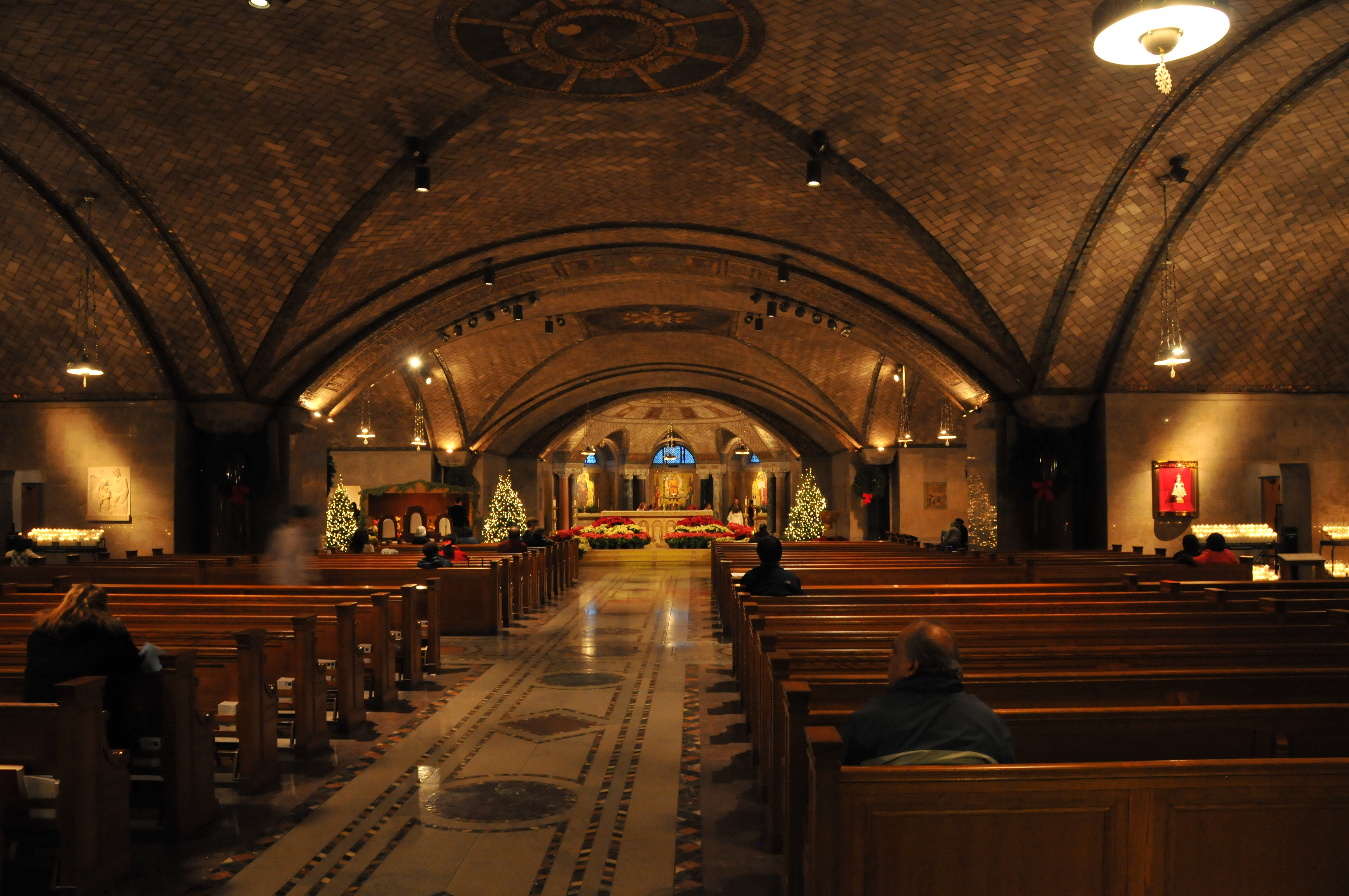 This is the Crypt. Below the Basilica Very beautiful church in DC. very rich in design and history. national shrine